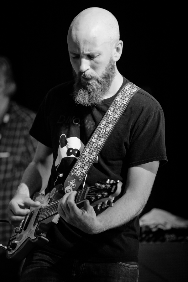 Even Helte Hermansen with Scheen Jazzorkester & Thomas Johansson in Energimølla. The concert was part of Kongsberg Jazzfestival and took place on 06. July 2018 in Kongsberg. Lineup:Thomas Johansson (trumpet)Guttorm Guttormsen (flute)André Kassen (tenor saxophone and soprano saxophone)Jon Øystein Rosland (tenor saxophone)Line Bjørnør Rosland (clarinet and bass clarinet)Marius Haltli (trumpet)Magne Rutle (trombone)Frøydis Aslesen (trombone)Åsgeir Grong (bass trombone)Rune Klakegg (piano)Even Helte Hermansen (guitar)Jan Olav Renvåg (double bass)Dag Erik Knedal Andersen (drums)